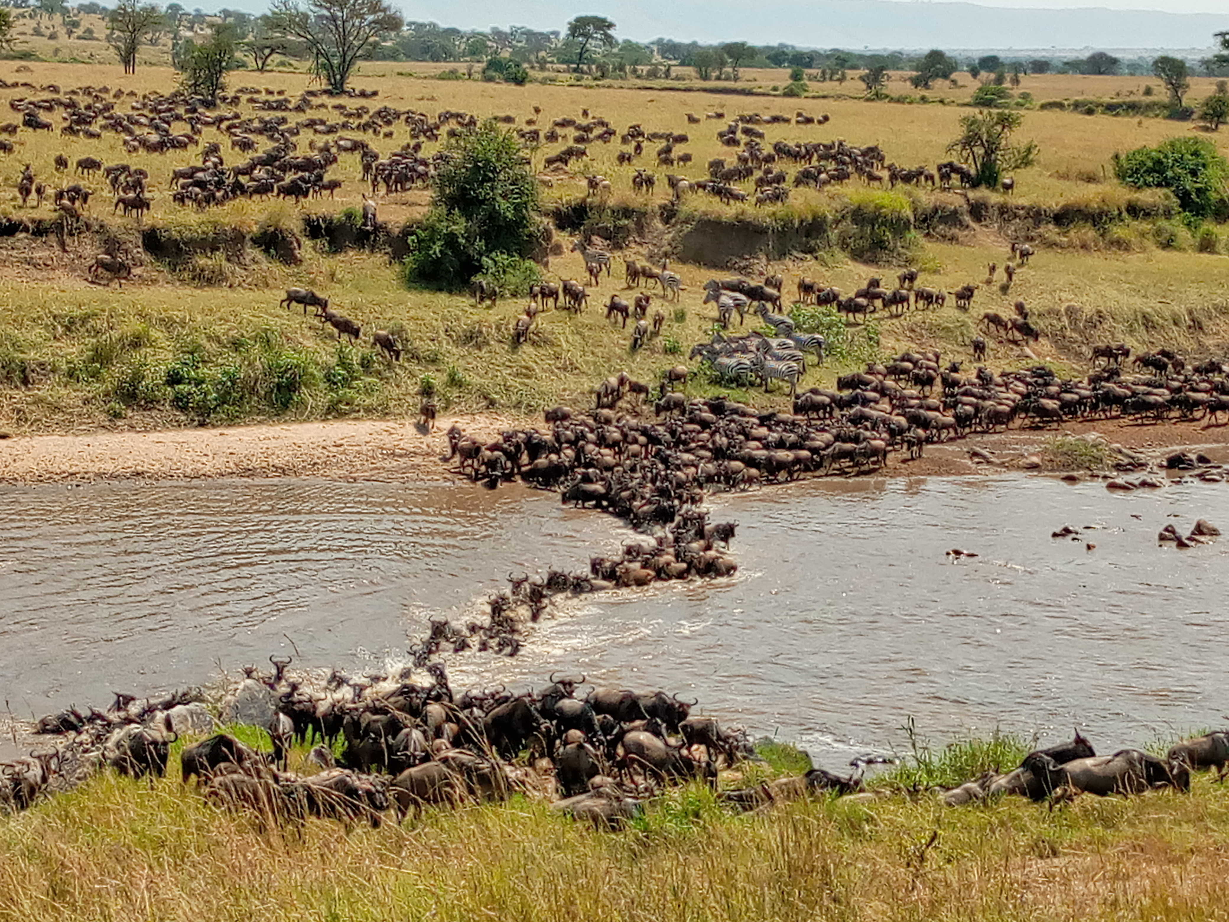 Nature's masterpiece is that every year the plains of East Africa are home to the world's greatest wildlife spectacles movement, whereby more than 1.4 million wildebeest and hundreds of thousands of zebra and gazelle move from one place of Tanzania to Kenya in search of good food, water and breading grounds. This great migration is often described as a set circuit that occurs between Tanzania's Serengeti plains in the south and Kenya's Maasai Mara in the north, but the reality of the migration is much more complex. It is surprising that the animals go forward, backwards, and to the sides, they mill around, they split up, they join forces again, they walk in a line, they spread out, or they hang around together, they get killed, they jump long and deep water bodies and they die out of starvation. You can never predict with certainty where they will be; the best you can do is suggest likely timing based on past experience. The Great Migration is the greatest show on earth, with a natural spectacular behavior like no other and a life-changing experience. This is an image with the theme "Africa on the Move or Transport" from: Tanzania